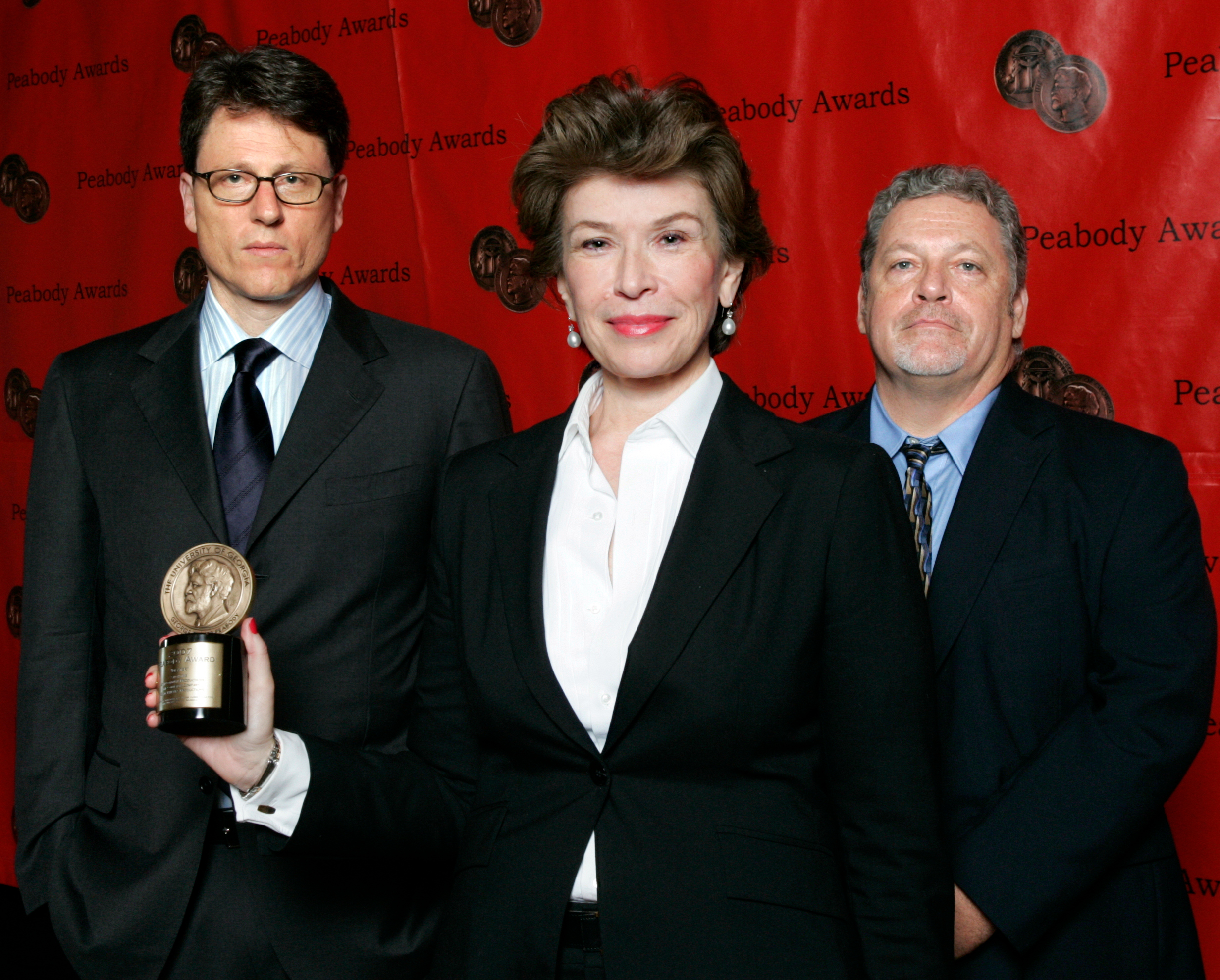 John Goldwyn, Sara Colleton and Jeff Lindsay 67th Annual Peabody Awards Luncheon Waldorf=Astoria Hotel New York, NY USA June 16, 2008